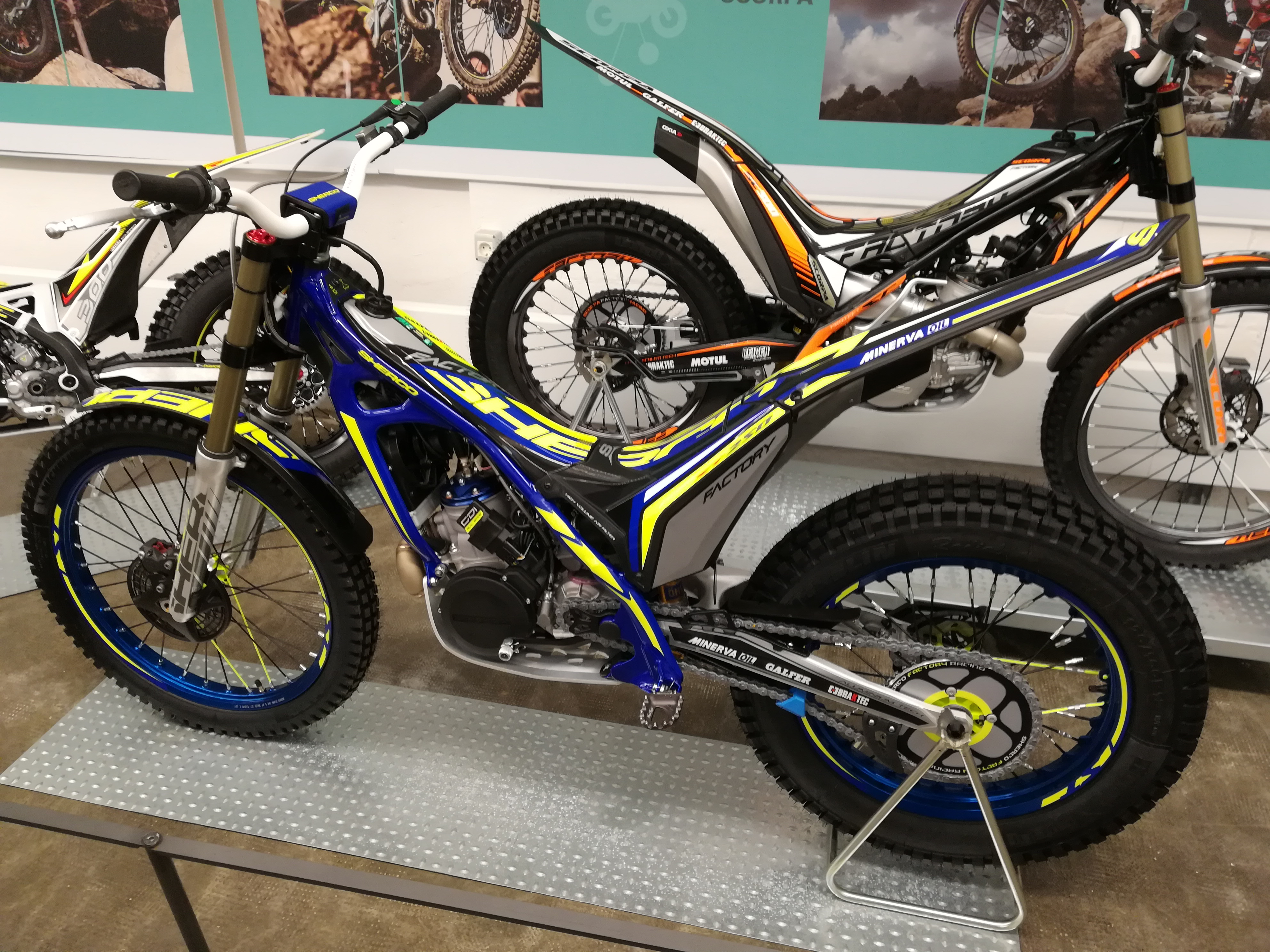 Sherco ST Factory 250cc, 2017